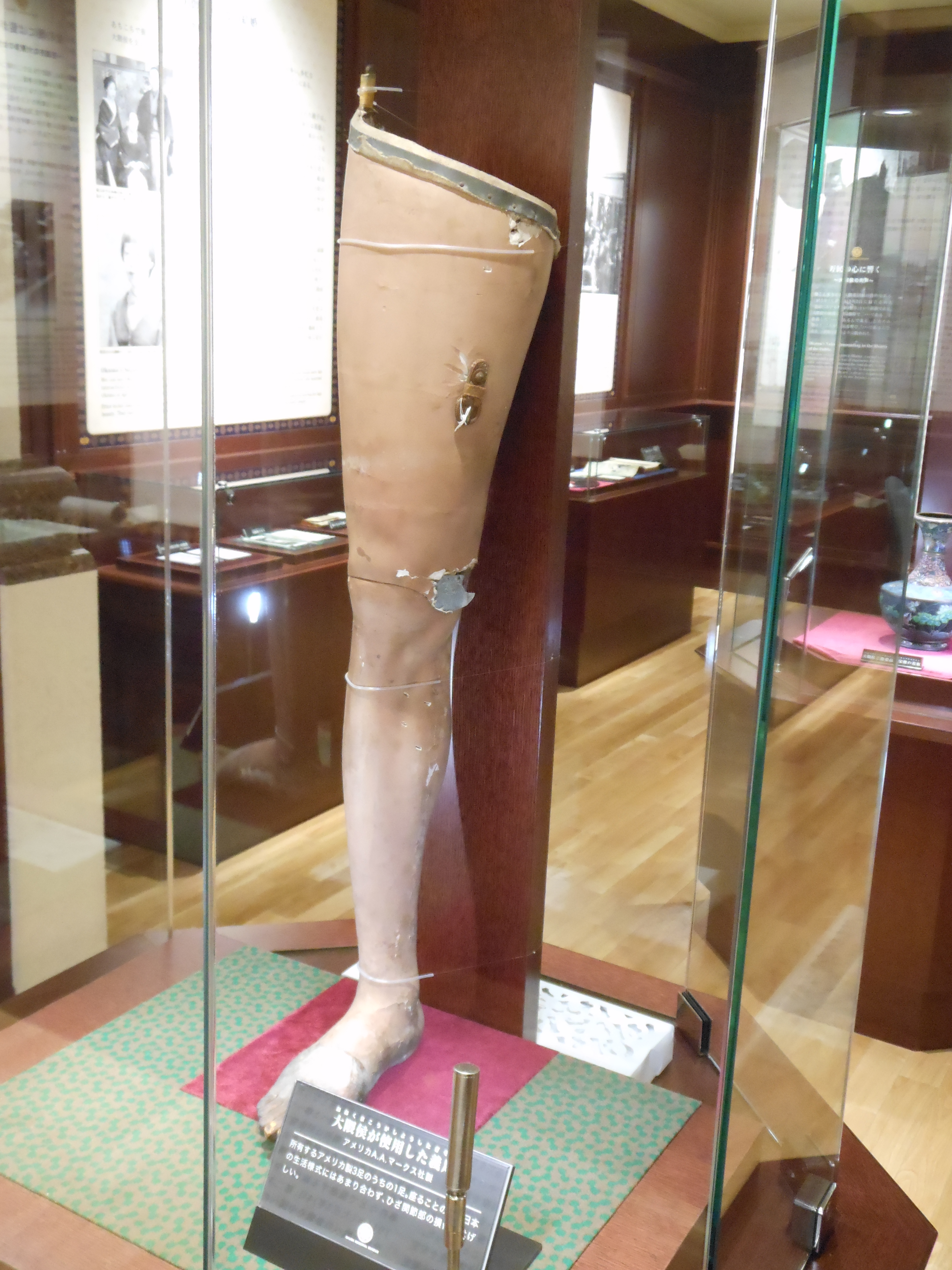 A leg prosthes, made in U.S.A, used by Ōkuma Shigenobu. It displays at Ōkuma Memorial Museum in Saga City.